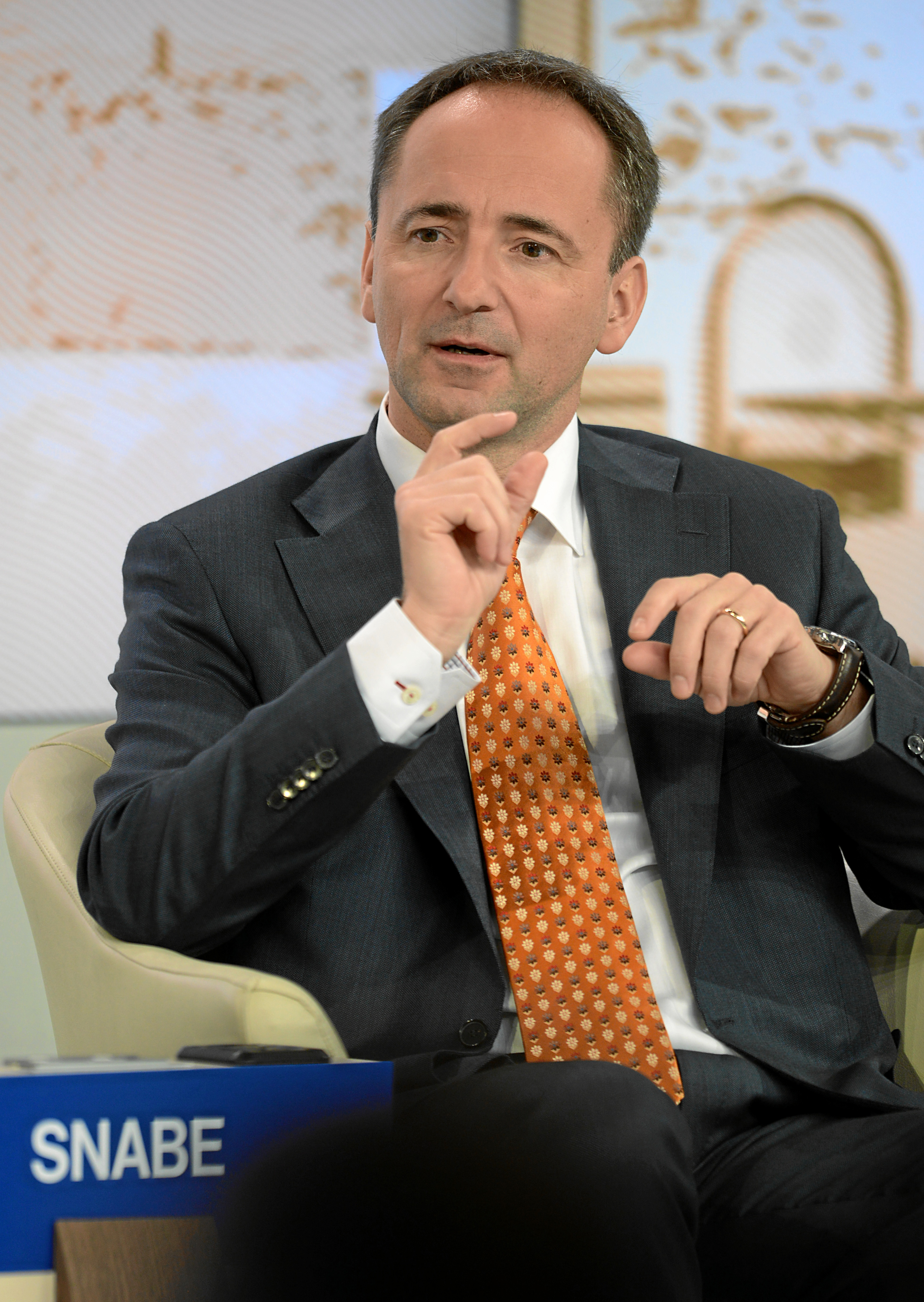 DAVOS/SWITZERLAND, 25JAN13 - Jim Hagemann Snabe, Co-Chief Executive Officer, SAP, Germany makes a point during the session 'The Economic Malaise and Its Perils' at the Annual Meeting 2013 of the World Economic Forum in Davos, Switzerland, January 25, 2013. . . Copyright by World Economic Forum. . Michael Wuertenberg